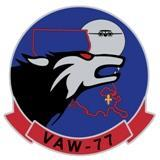 Insignia of the U.S. Naval Air Reserve Carrier Airborne Early Warning Squadron 77 (VAW-77), in 1970.